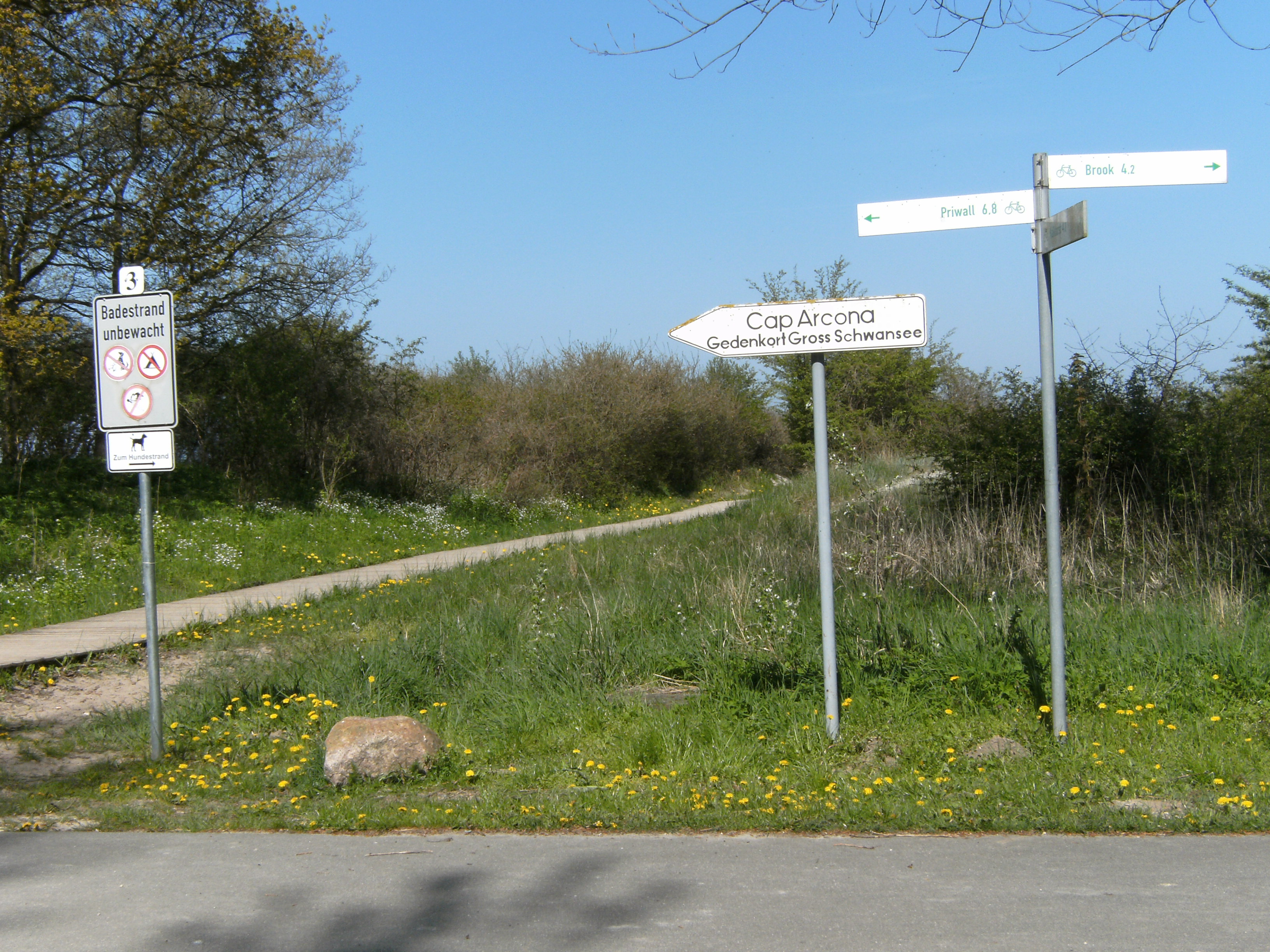 Way to Memorial place Cap Arcona Groß Schwansee: About 2 Kilometer on path for bycicles and pedestrians.